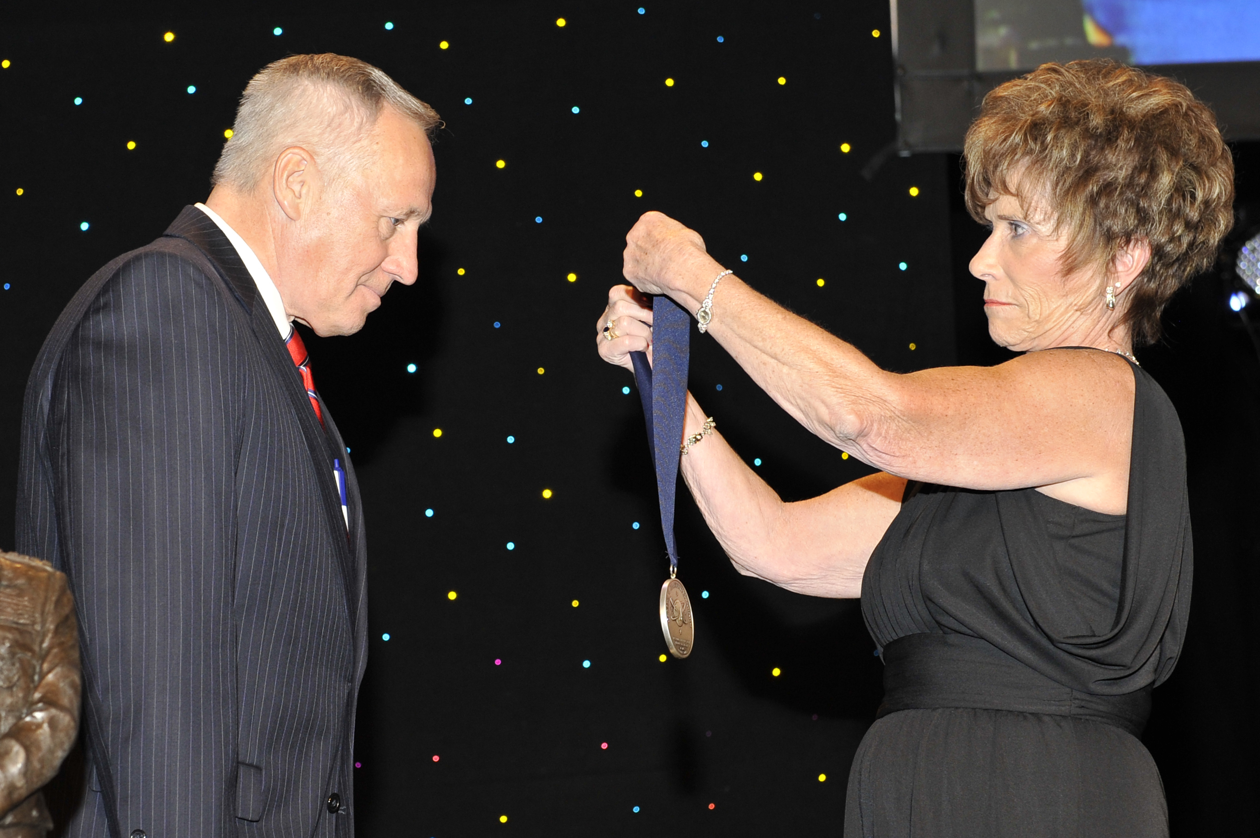 Mrs. Mickey Hartinger, spouse of General (Ret.) James V. Hartinger, presents General Bruce Carlson the 2012 Hartinger award during a banquet hosted by the Space Foundation in honor of Air Force Space Command’s 30th anniversary celebration Sept. 14, 2012, Colorado Springs, Colo. The Hartinger award is one of the highest accolades any space professional can achieve presented each year to the person selected by a committee of NDI/RMC chapter members for having made a significant contribution to the military space mission of the United States. (U.S. Air Force photo/Staff Sgt. Christopher Boitz/Released)